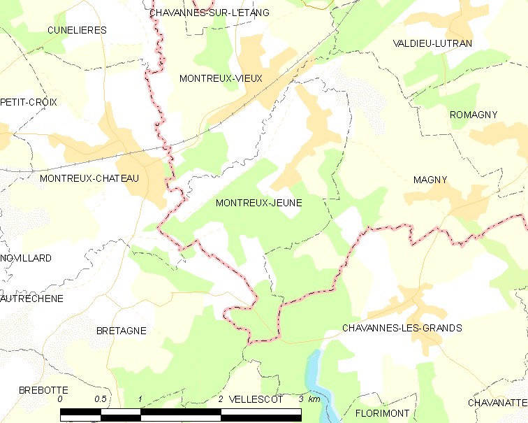 Map of French municipality